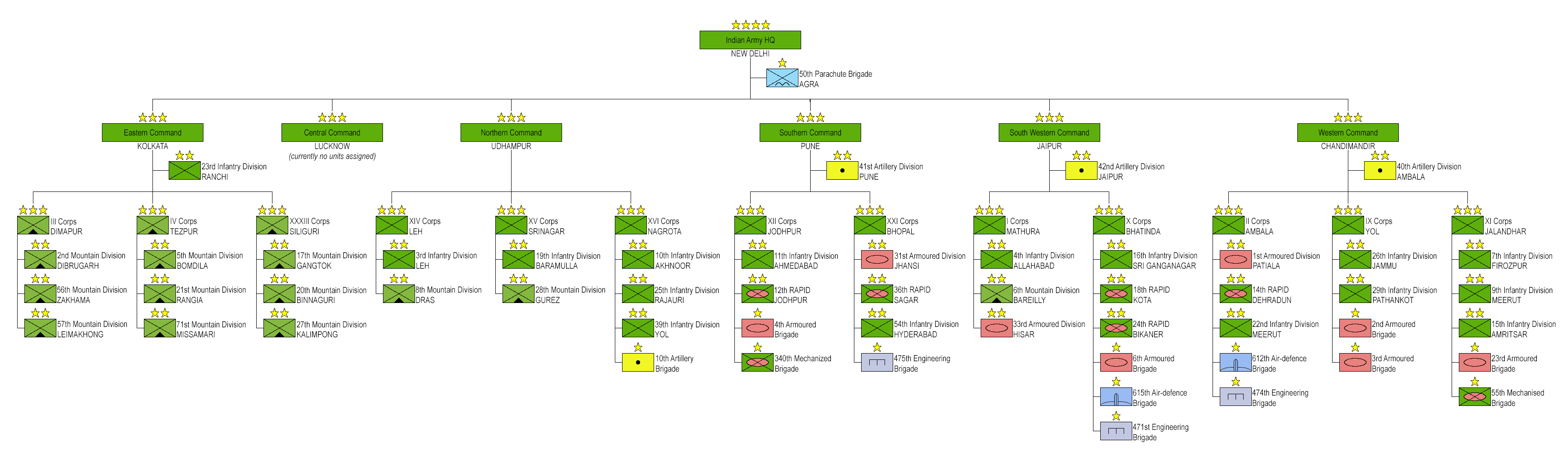 Peace Time structure of the Indian Army (incomplete - 10 Artillery, 5 Infantry and 1 Parachute brigades are unaccounted for (as of March 2010))